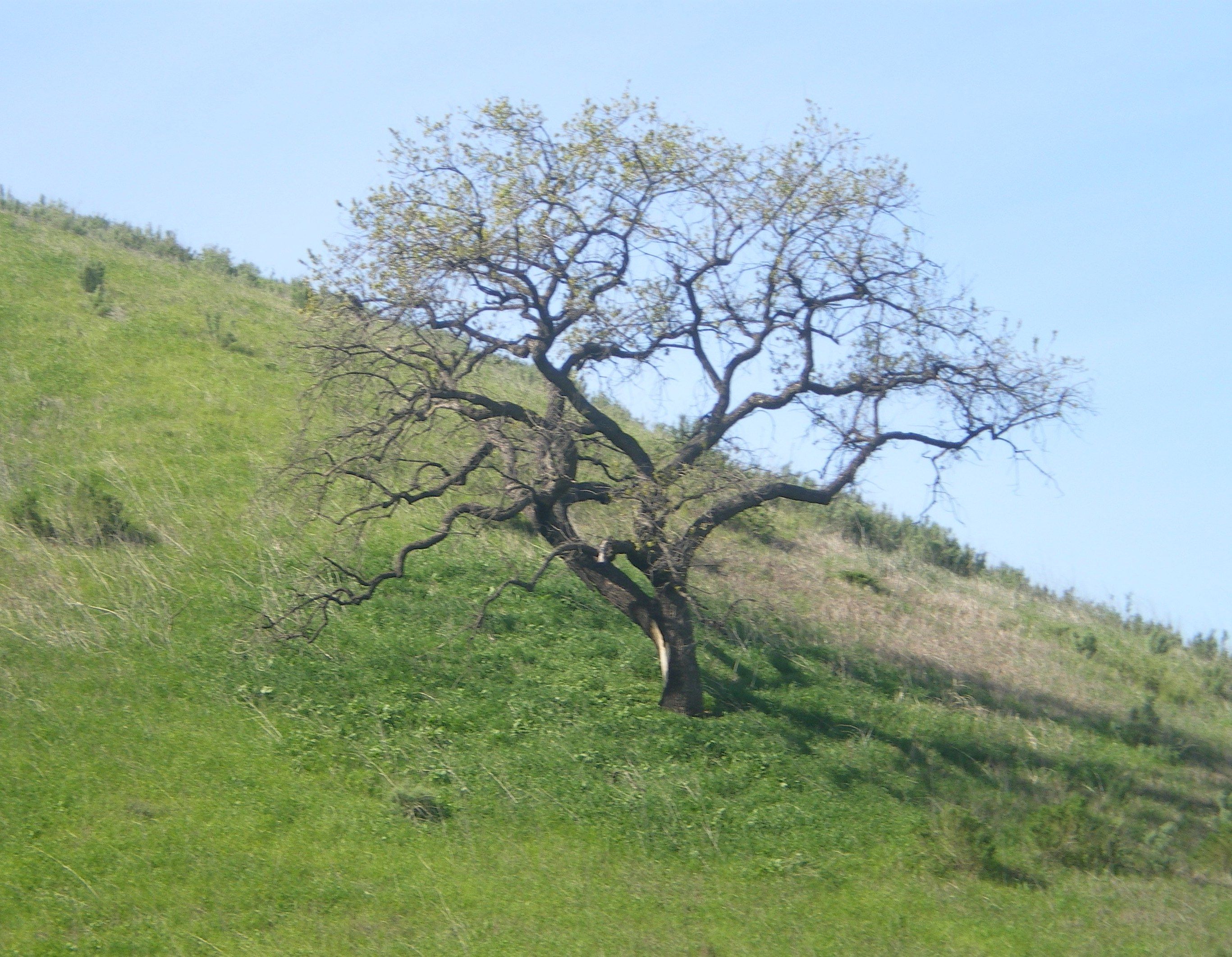 Valley Oak tree (Quercus lobata) leafing out in spring, at the the Upper Las Virgenes Canyon Open Space Preserve in the Simi Hills. Located in eastern Ventura County — near West Hills and the western San Fernando Valley, Southern California.